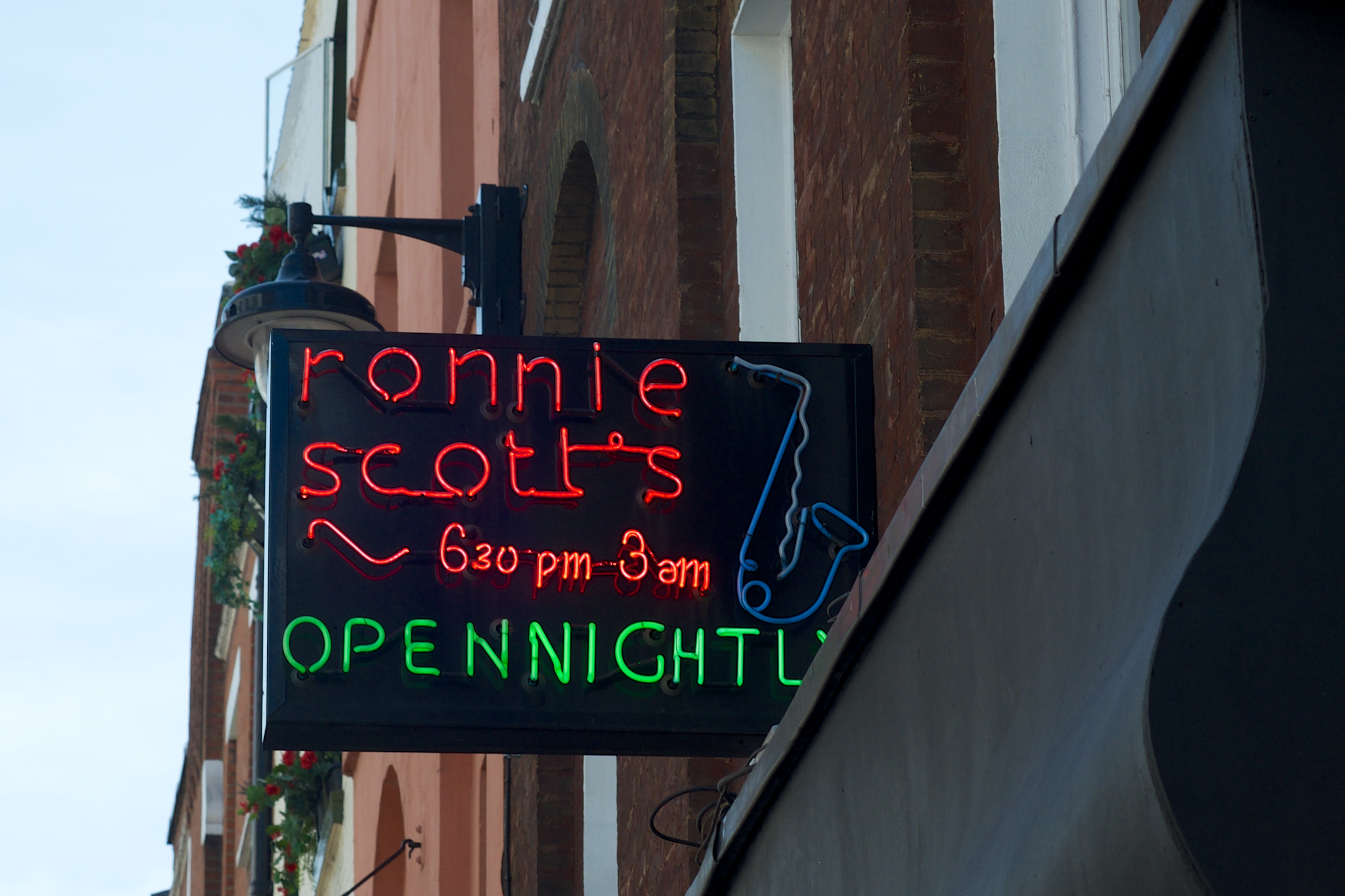 Neon sign outside Ronnie Scott's Jazz Club in Frith Street, Soho, London.